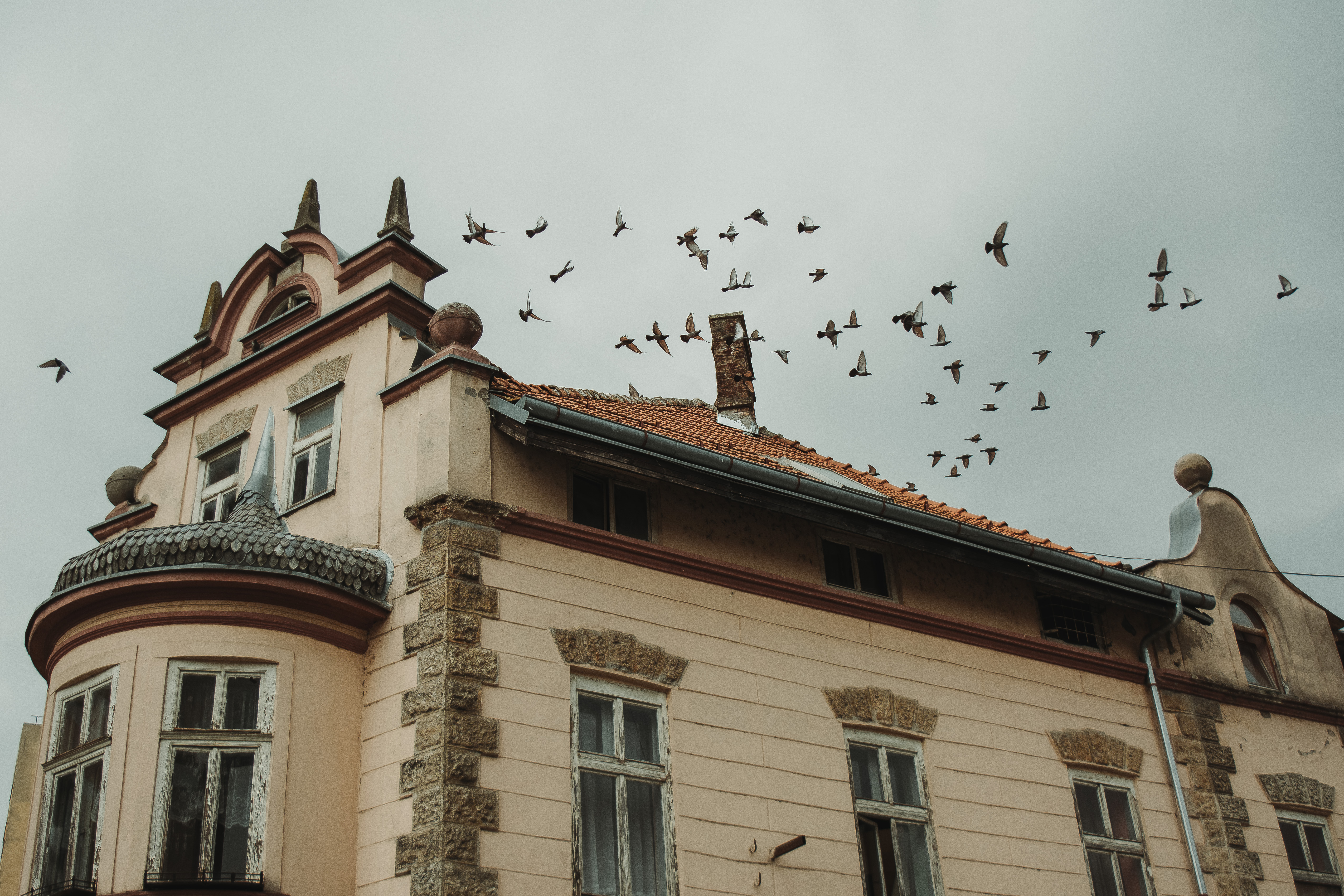 Library in Novi Grad. This image was uploaded as part of Trace of Soul 2018.